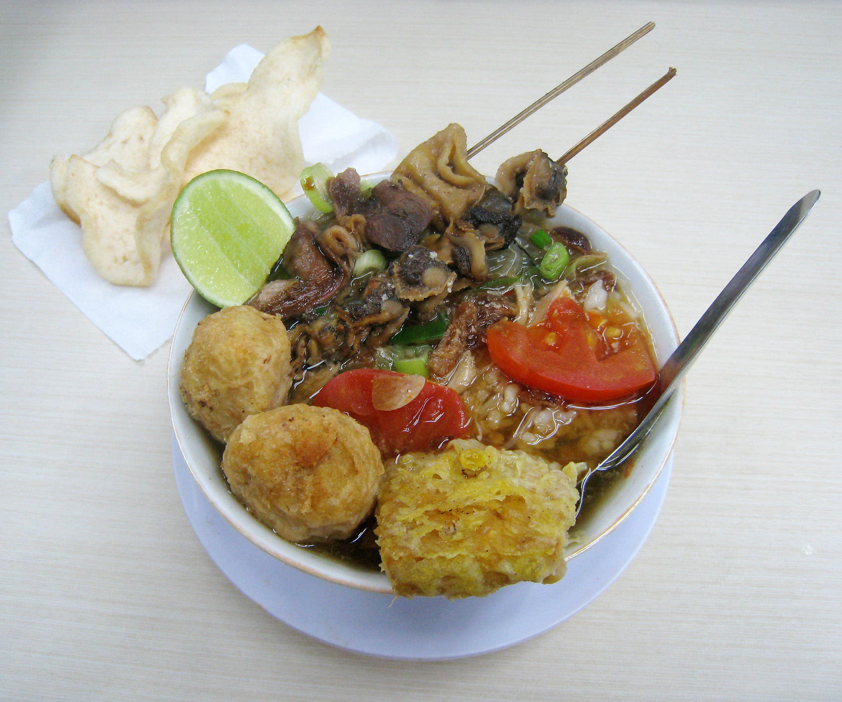 Soto Bangkong, a variant of Soto from Semarang, Central Java. The chicken soto with rice vermicelli and tomato, served with potato perkedel, fried tempe, and satay of cockles and tripes, with lime and krupuk.